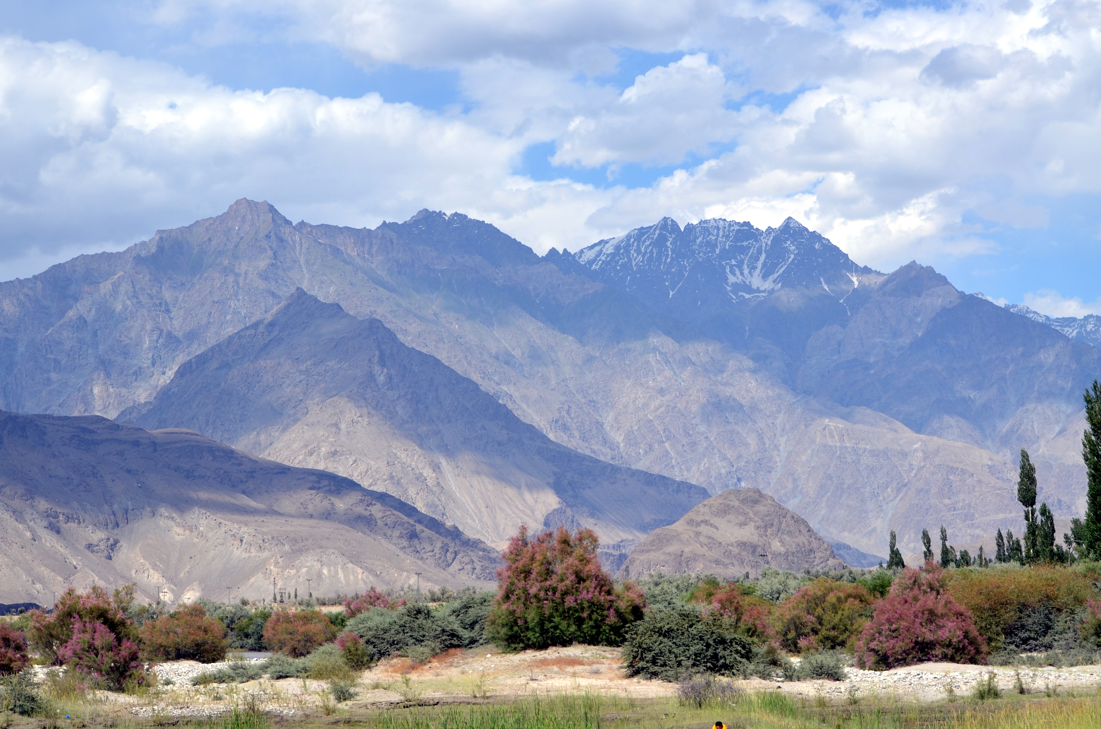 Skardu Karakurom Mountain